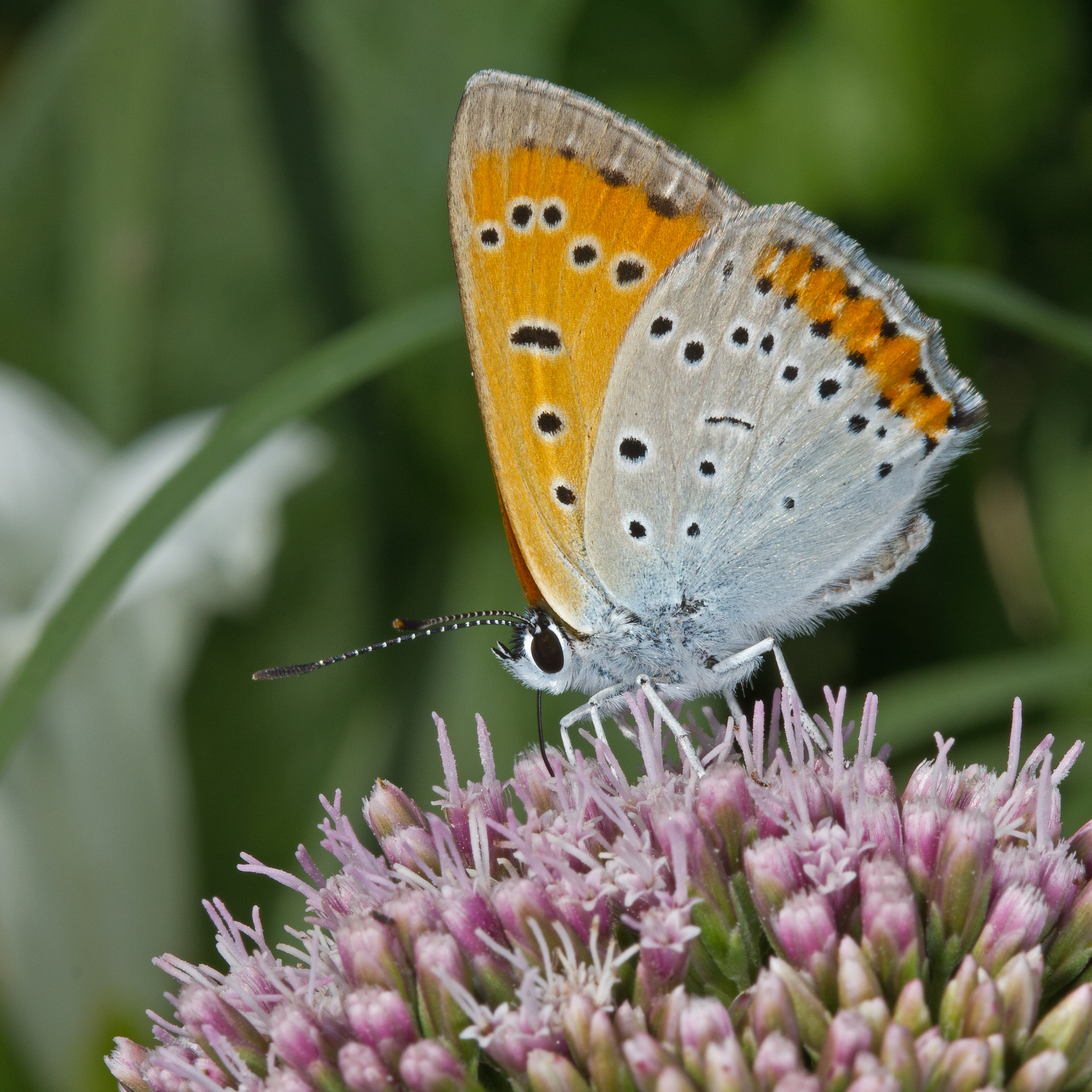 Large Copper male gathering nectar of Hemp-agrimony in a wet meadow. Limousin, France.